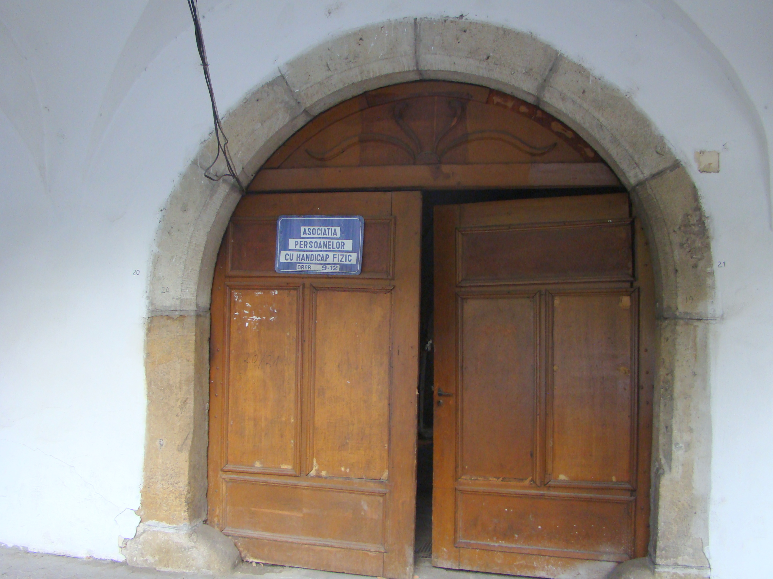 Houses, historic monuments, in Bistrița, Piața Centrală 13-24